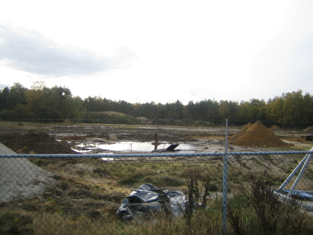 Recent genomen foto van de Teerput